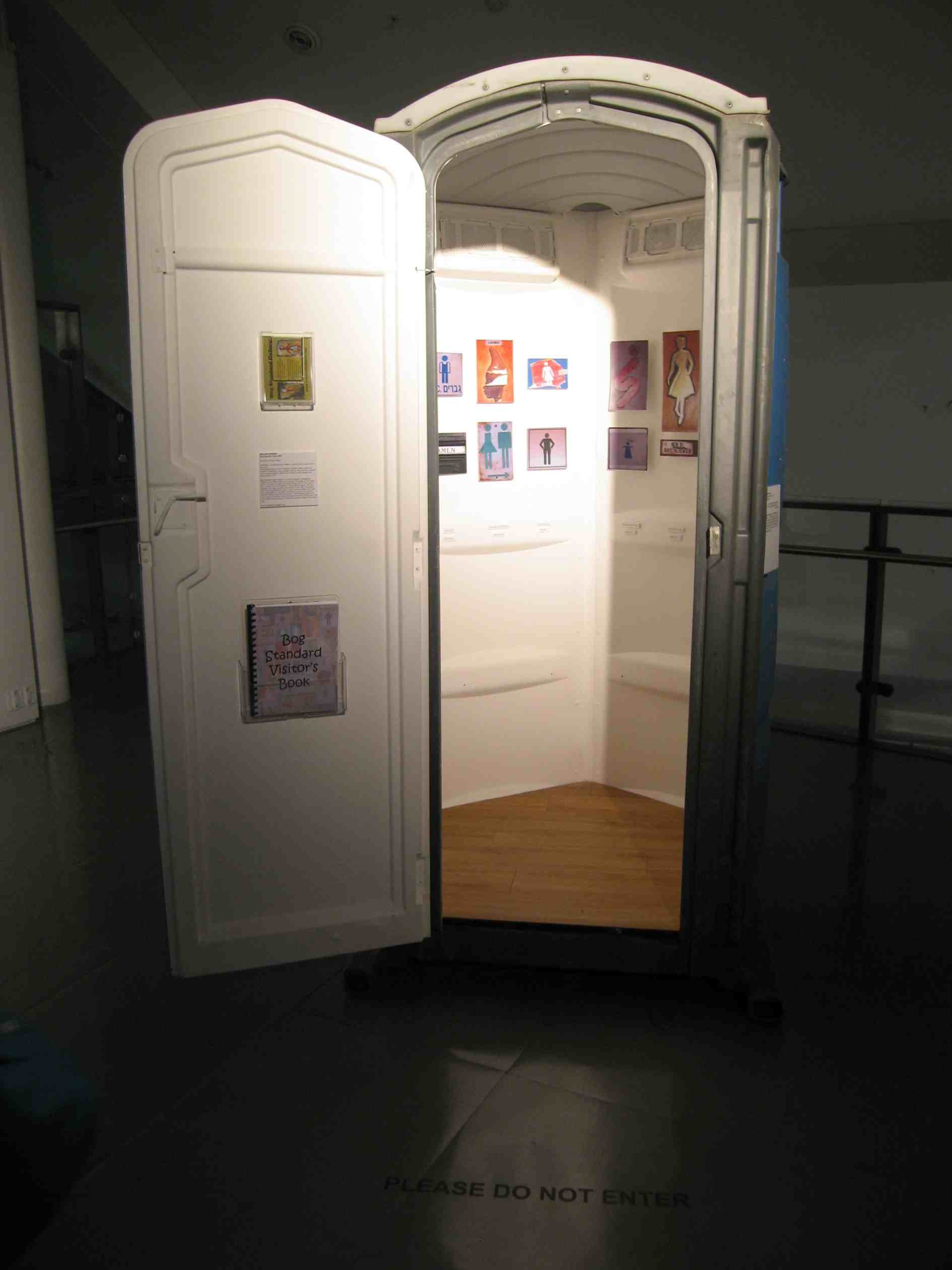 Bog Standard Gallery, at Urbis, in Manchester, UK.